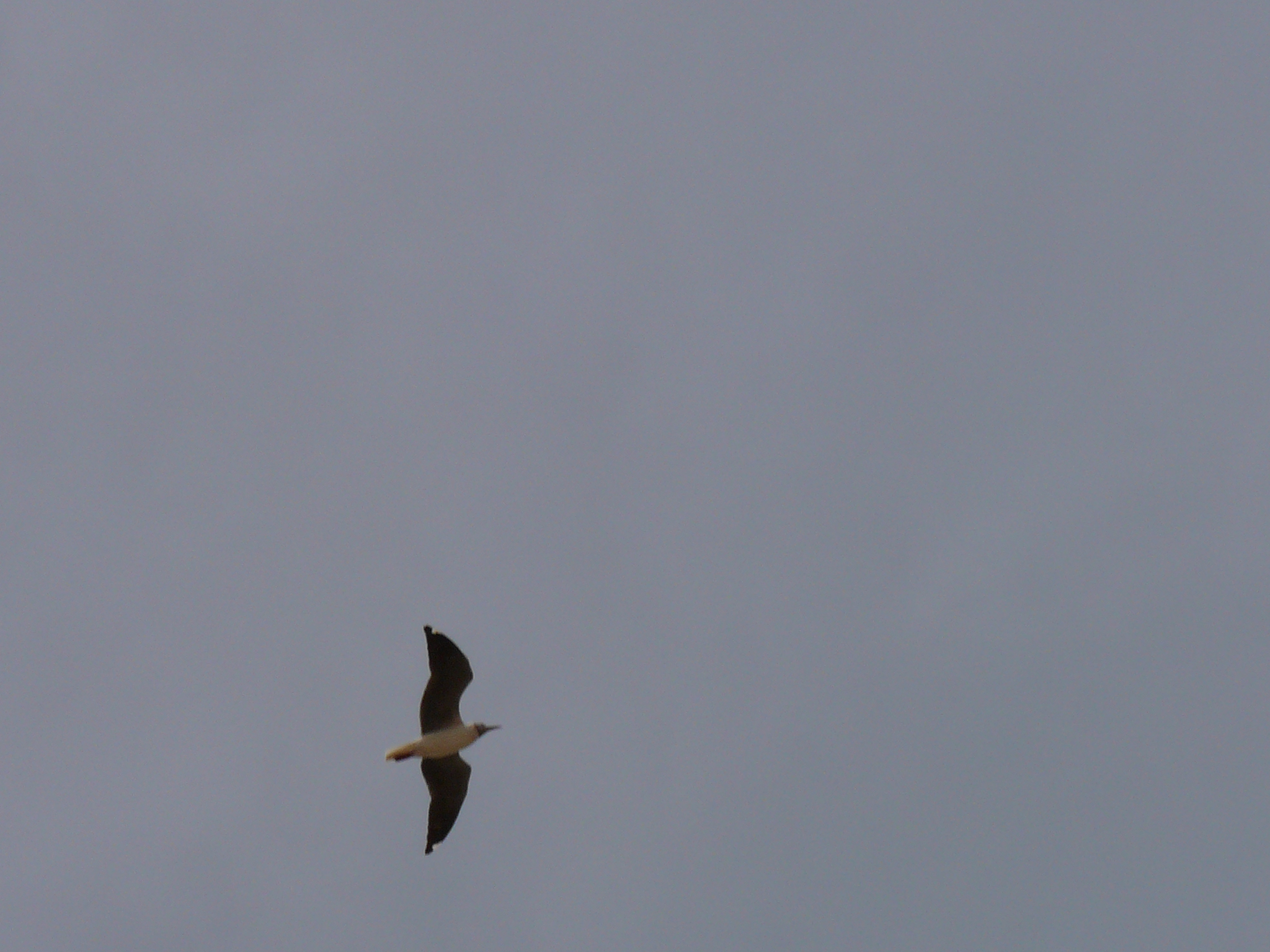 Grey-headed Gull